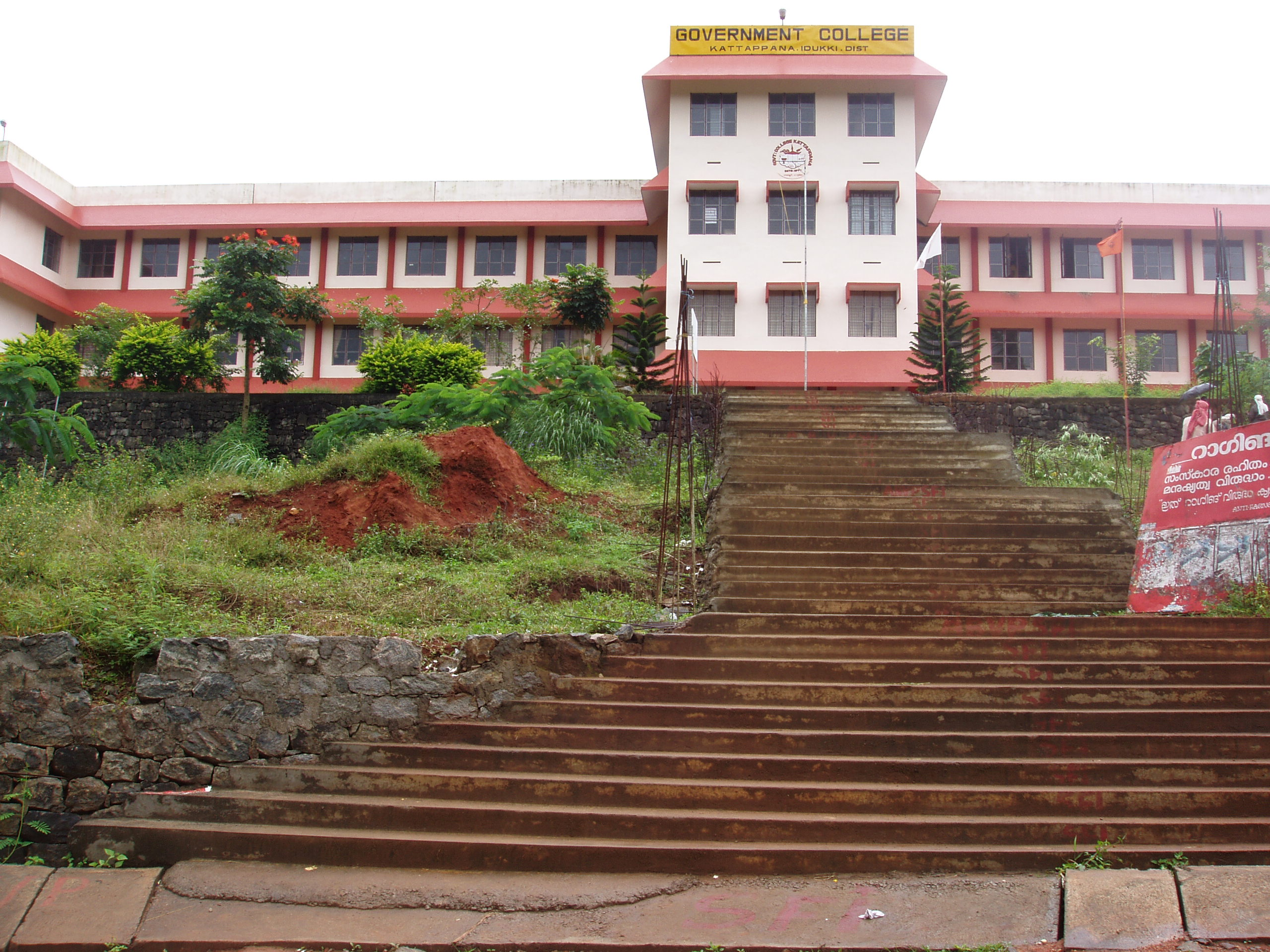 Entrance of Government college , kattappana